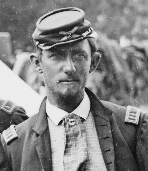 First Lieutenant Alexander C.M. Pennington, Jr., USA, 1862.